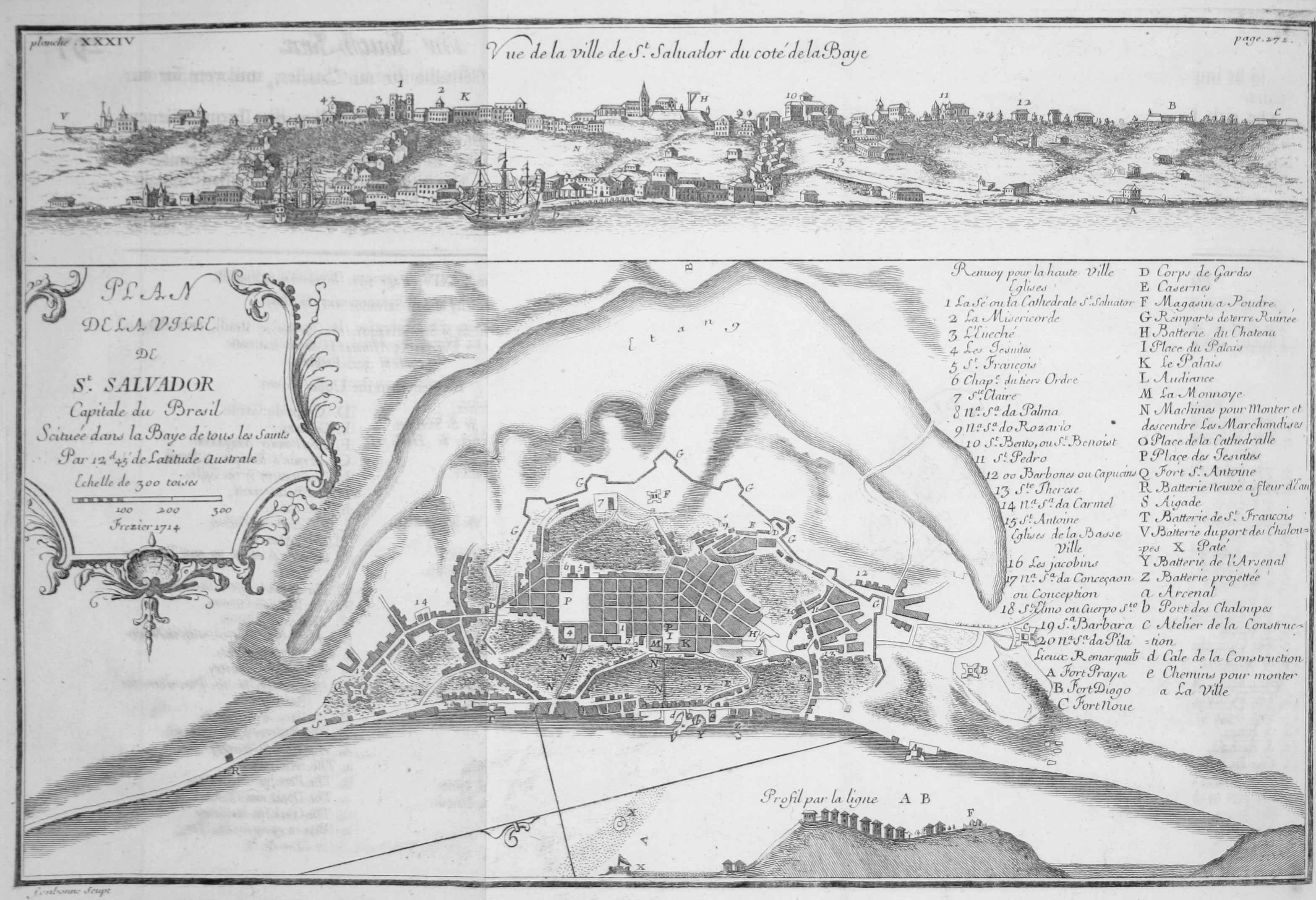 Planche XXXIV